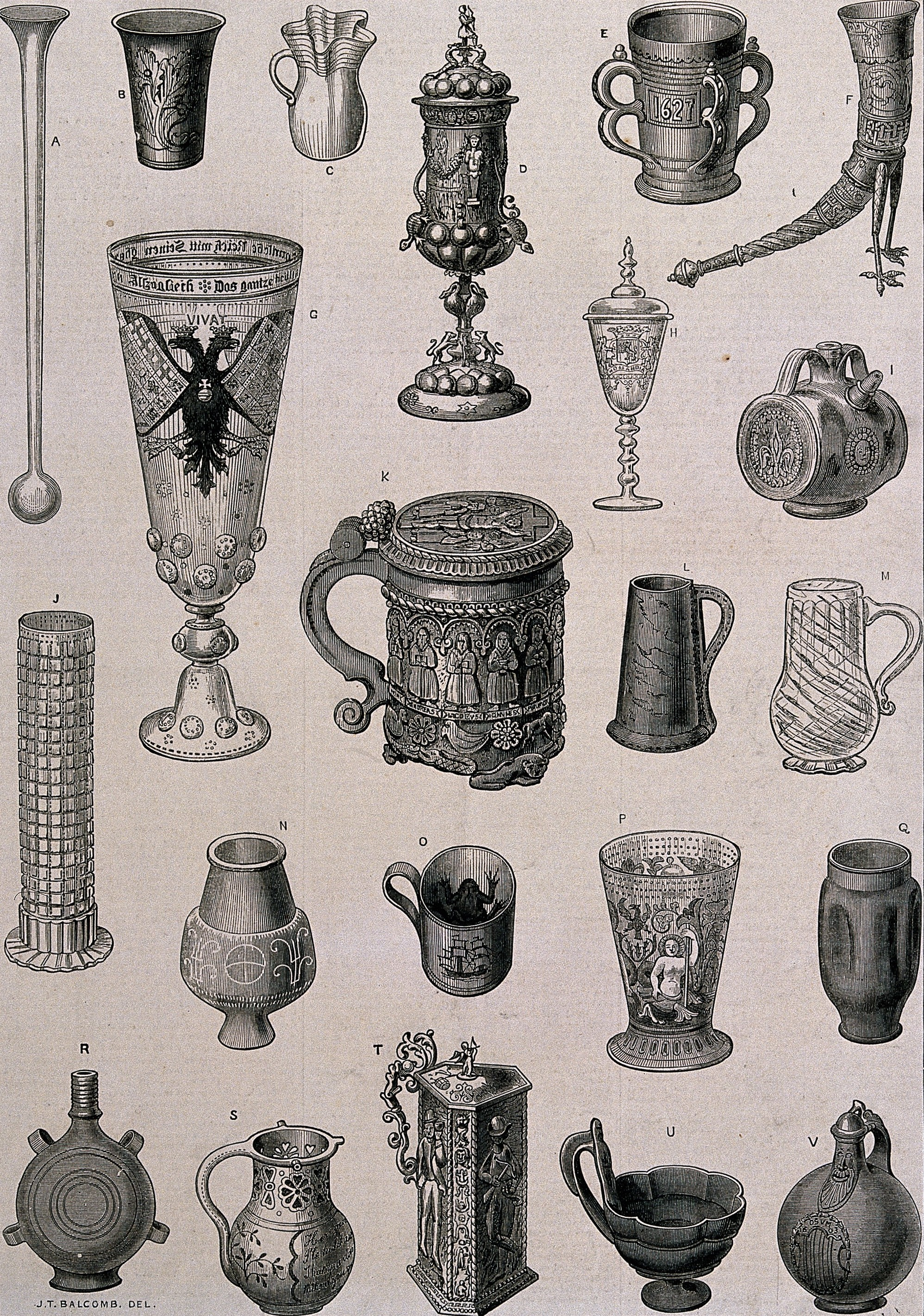 Twenty two ancient drinking vessels from an exhibition. Wood-engraving, c. 1873, after J. T. Balcomb. Iconographic Collections Keywords: mugs; balcomb, j. t.; VESSELS; Glass; J. T. Balcomb; Drinking; ic; GLASSES